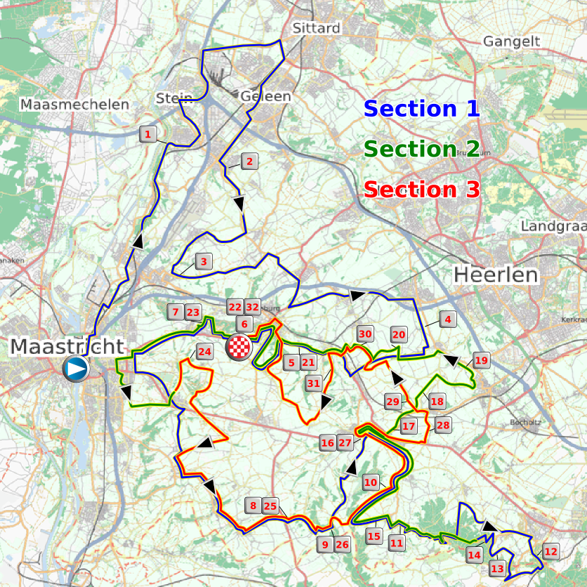 Course and climbs of the Amstel Gold Race 2011